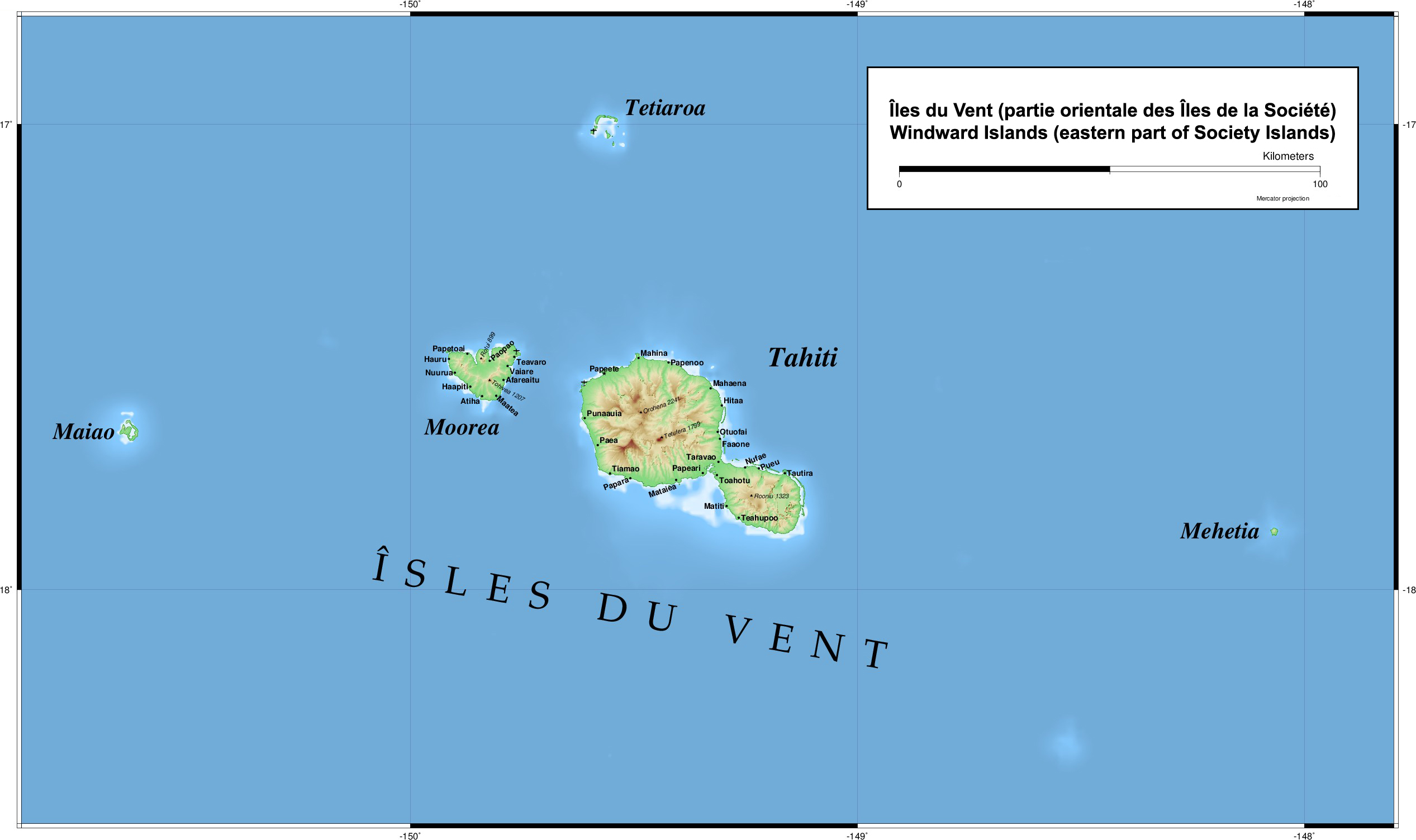 Map of the eastern isles of the Society Islands, called the Windward Islands, of the tropical Pacific Ocean